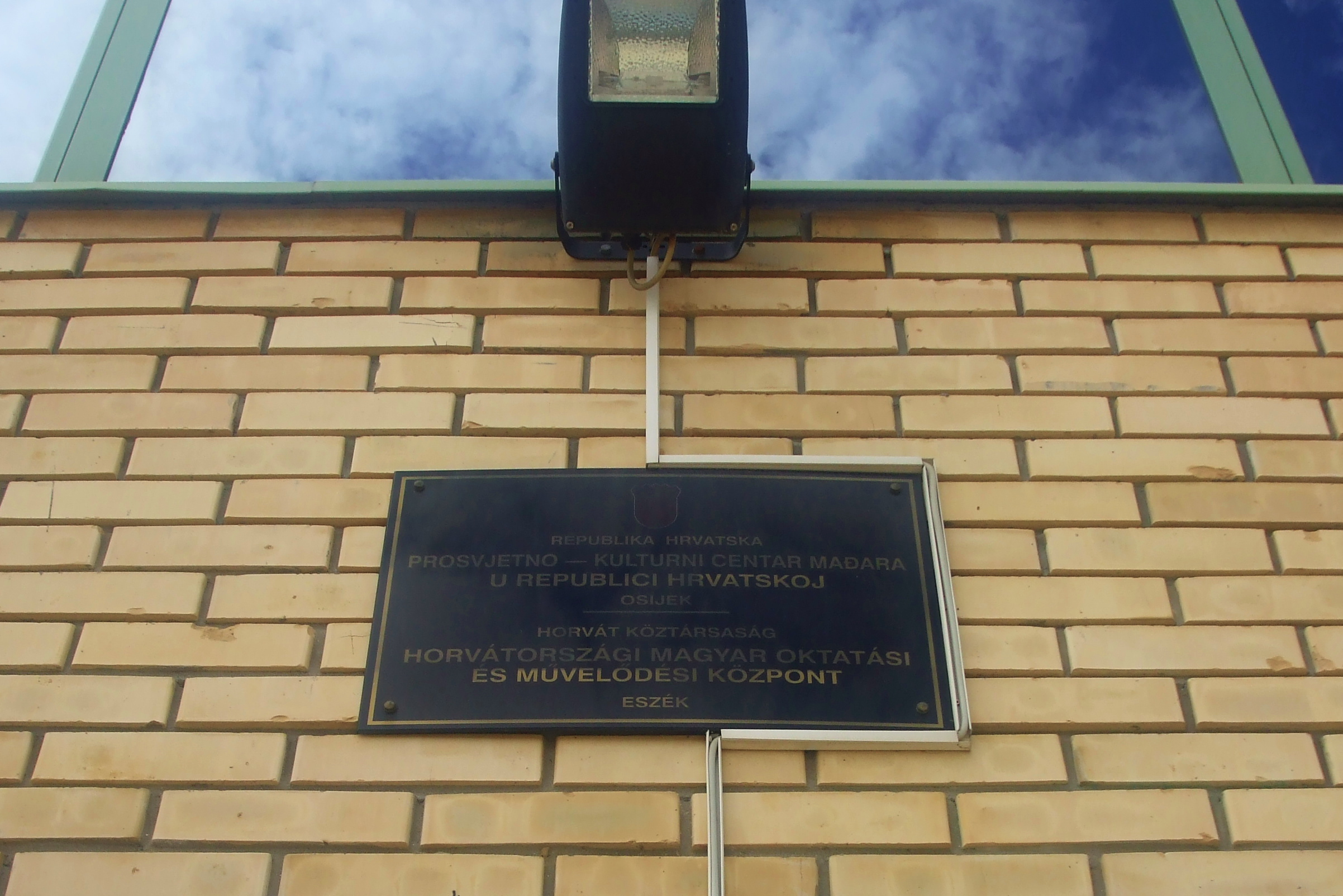 The Educational and Cultural Center of Hungarians in Croatia (Osijek, Croatia)